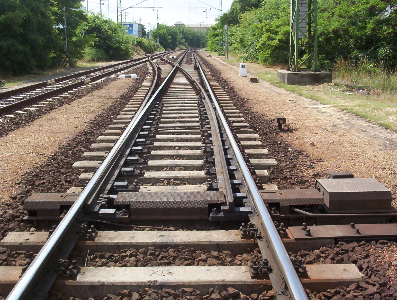 Type B60XI railway point with reinforced concrete sleepers; Budapest-Soroksári út, Hungary